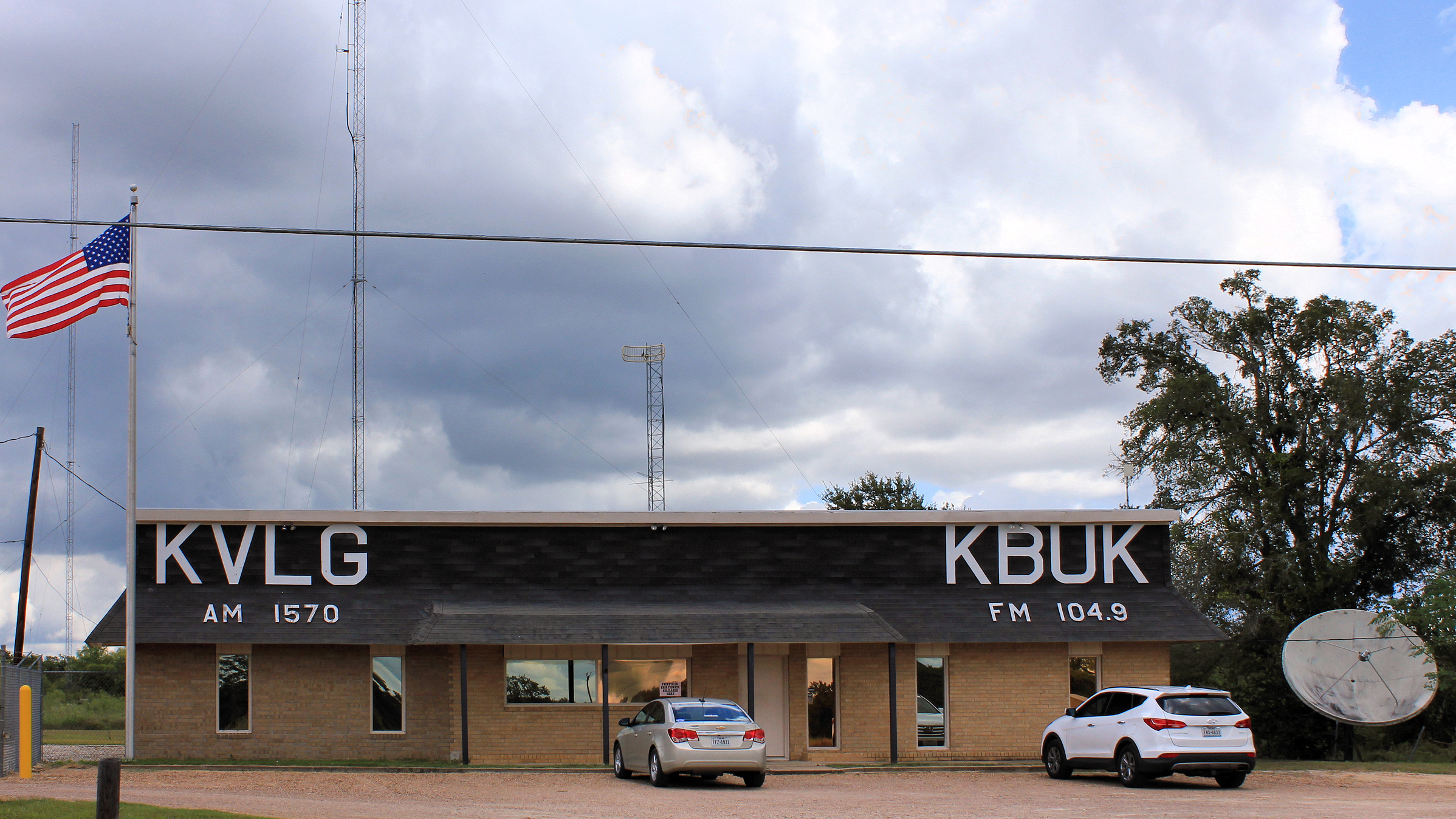 KVLG and KBUK Studios Near La Grange Texas